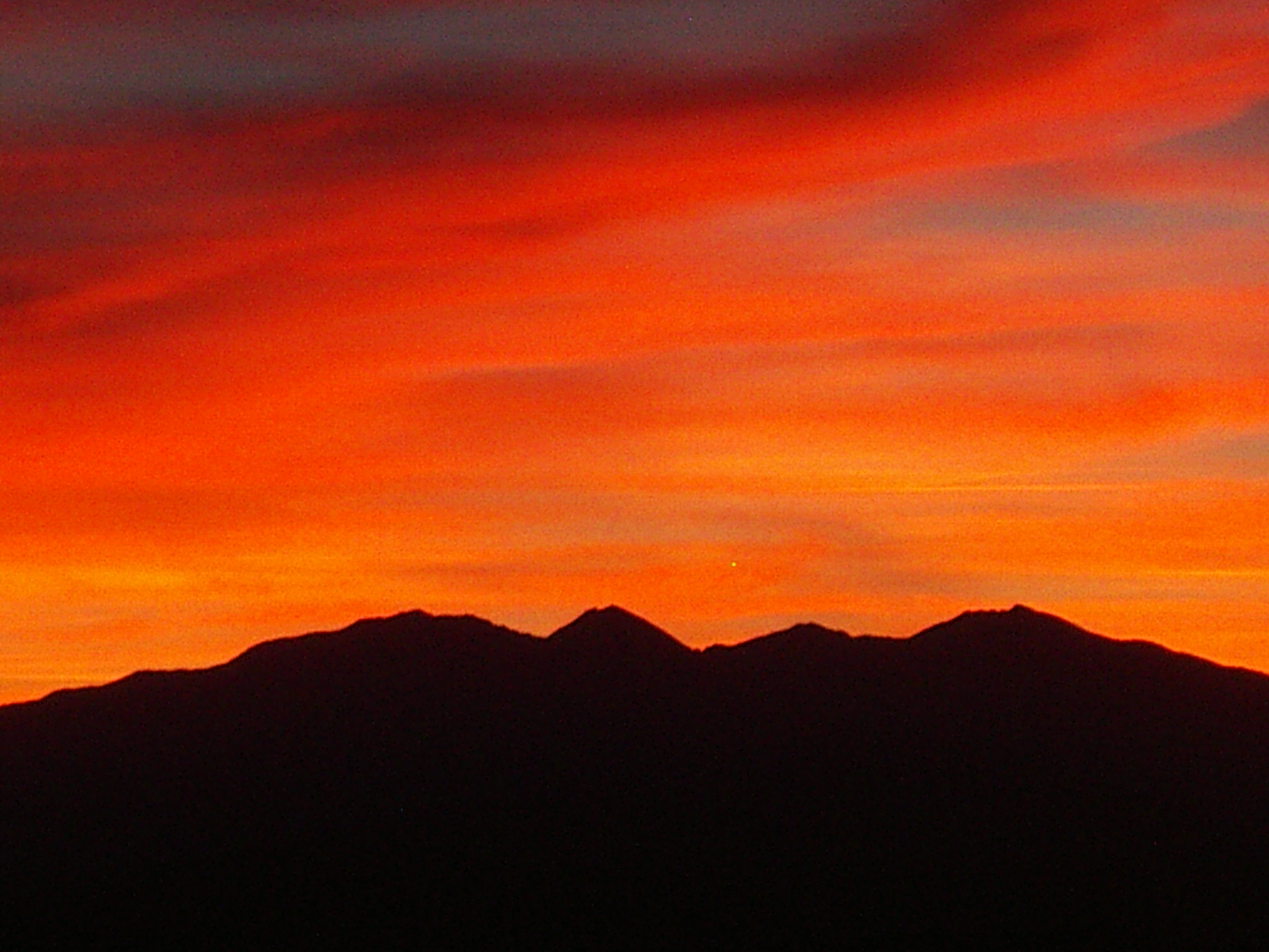 Sunset behind the Pic du Canigou located at the eastern end of the Pyrenees